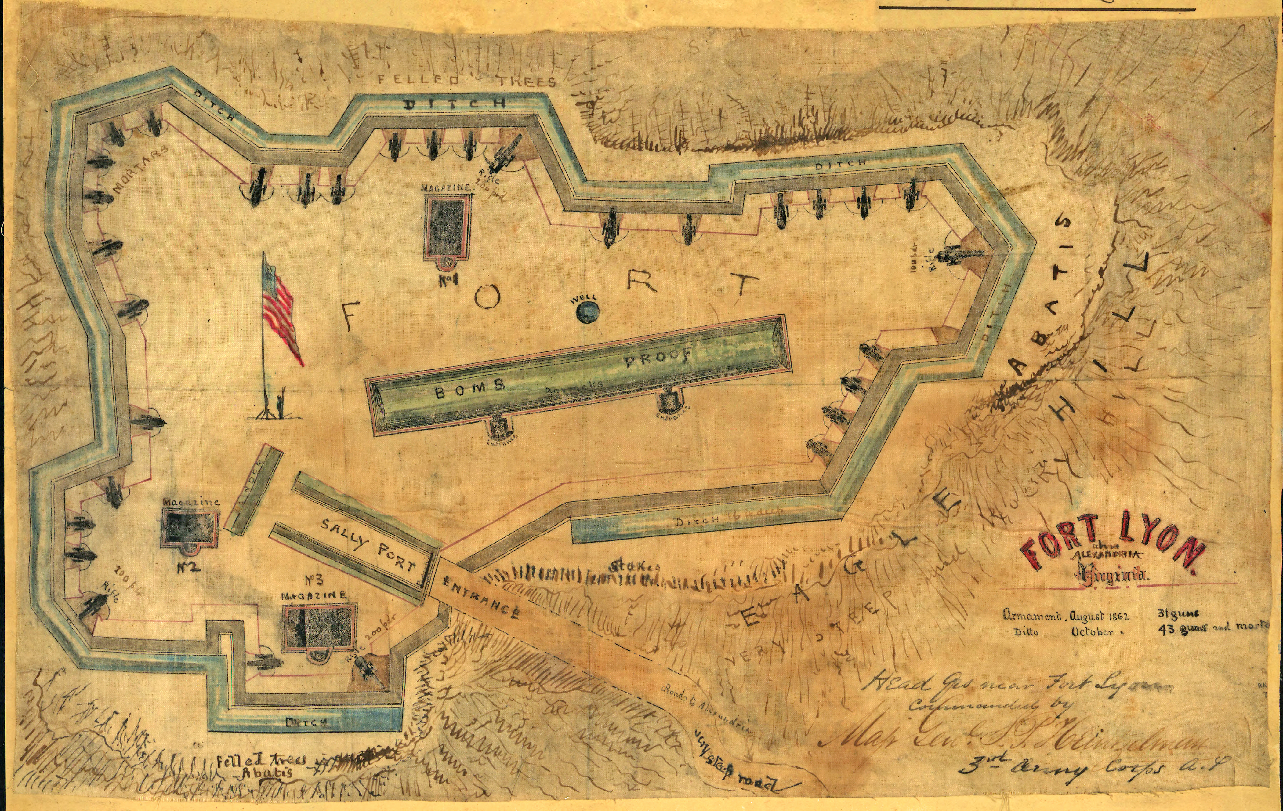 The map by Sneden, Robert Knox, 1832-1918, is a close up drawing of Fort Lyon located on Eagle Hill in Alexandria, Virginia. Shows the fort's defenses, including abatis, ditches, salients, sally port, and bomb proof.